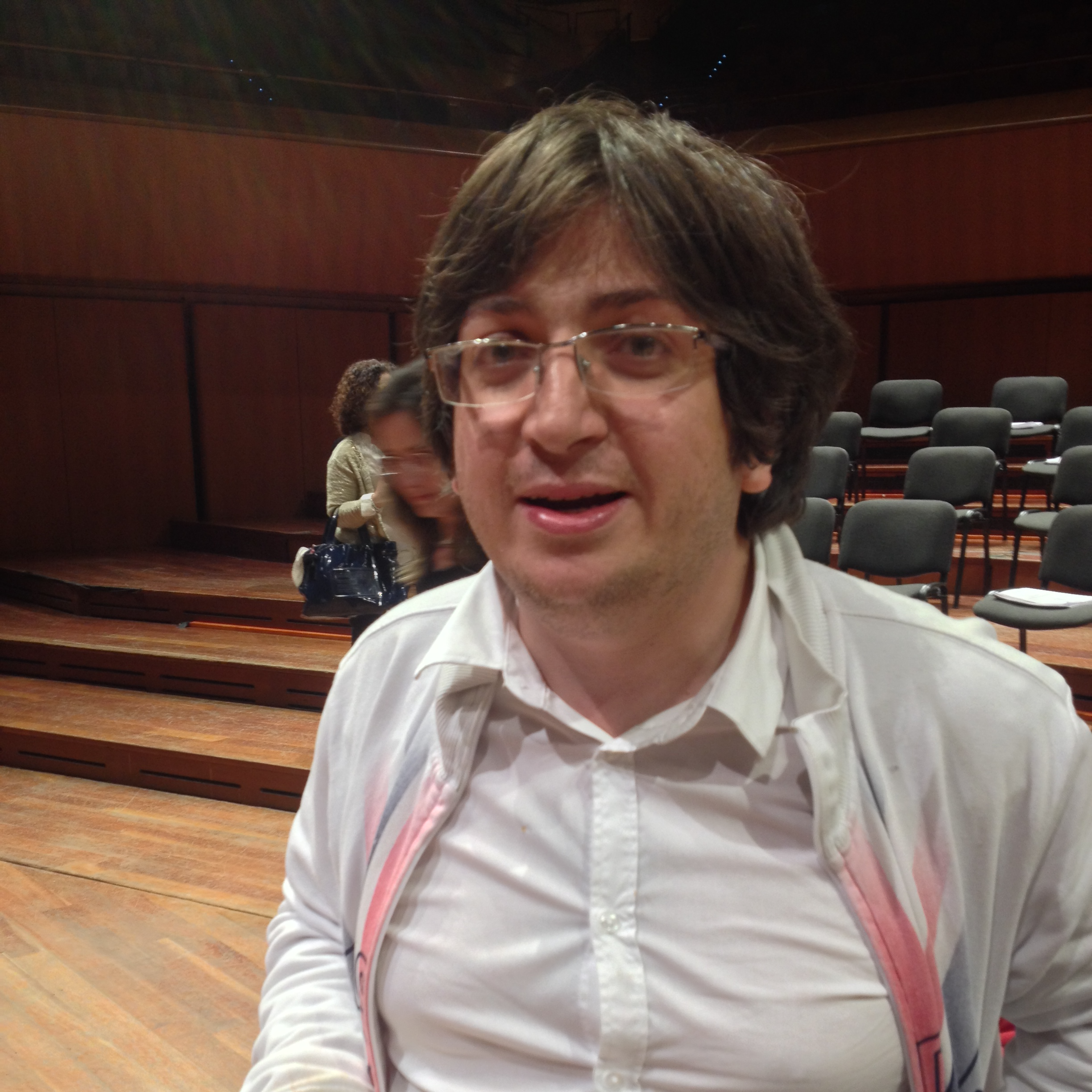 Ramin Bahrami during rehearsals at the Accademia di Santa Cecilia in Rome